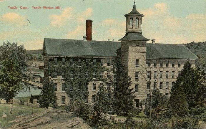 Postcard picture of Yantic Woolen Mill in the Yantic section of Norwich, Connecticut; eBay store Web page states: "view of The Yantic Woolen Mill in Yantic, Connecticut. Mailed in 1912. Publ. by Hugh C. Leighton Co."; Picture of same building on Wikipedia: Image:Hale Mill Yantic Kevin Pepin.jpg